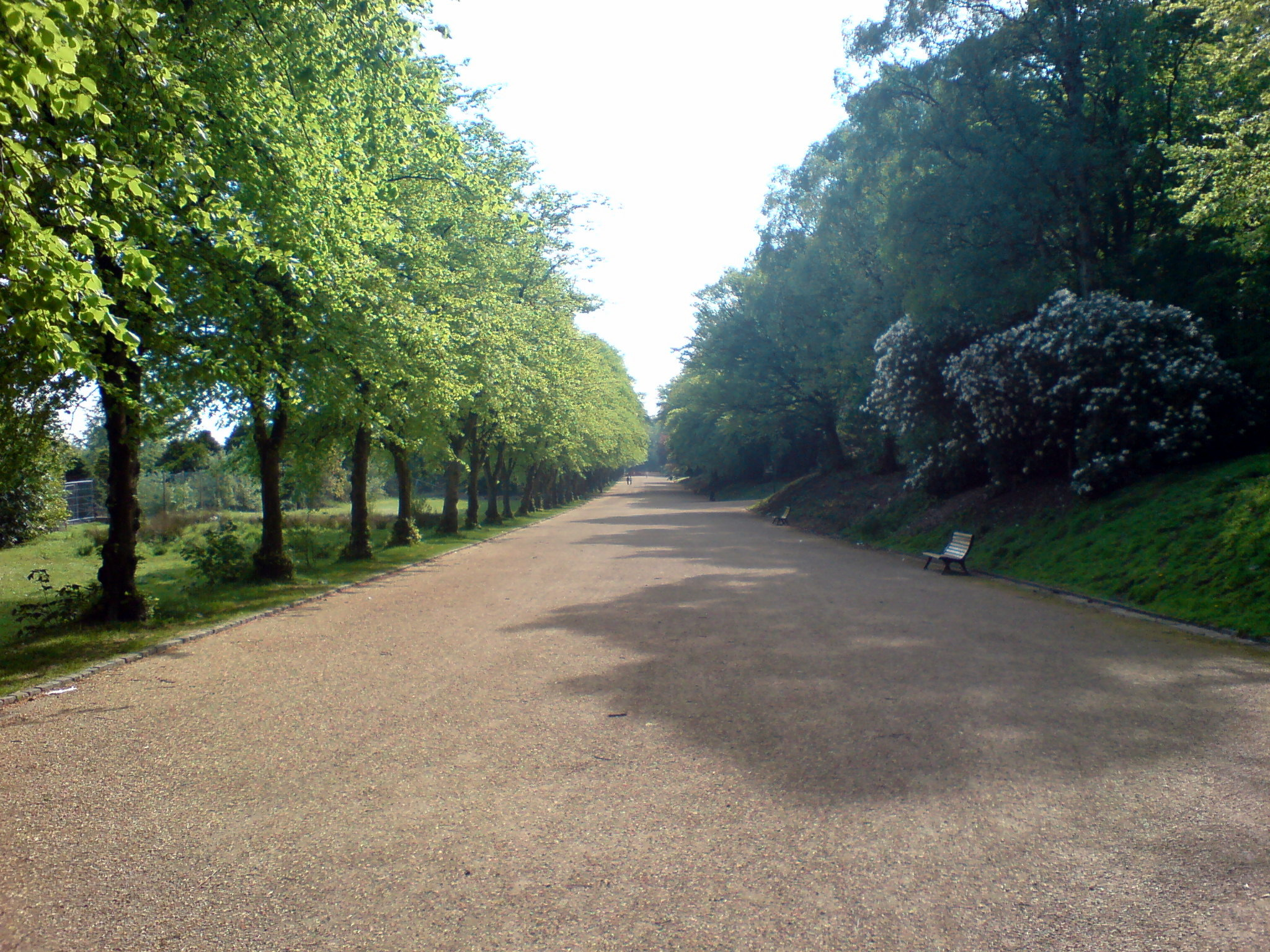 Viewing east to west along the 500-metre Broadwalk in Corporation Park, Blackburn, UK.